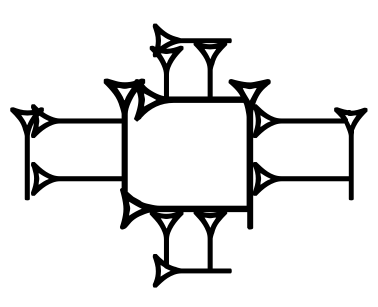 Archaic (pre-Sargonic, Fara period) cuneiform sign LAK-617 (Unicode U+12501 𒔁).